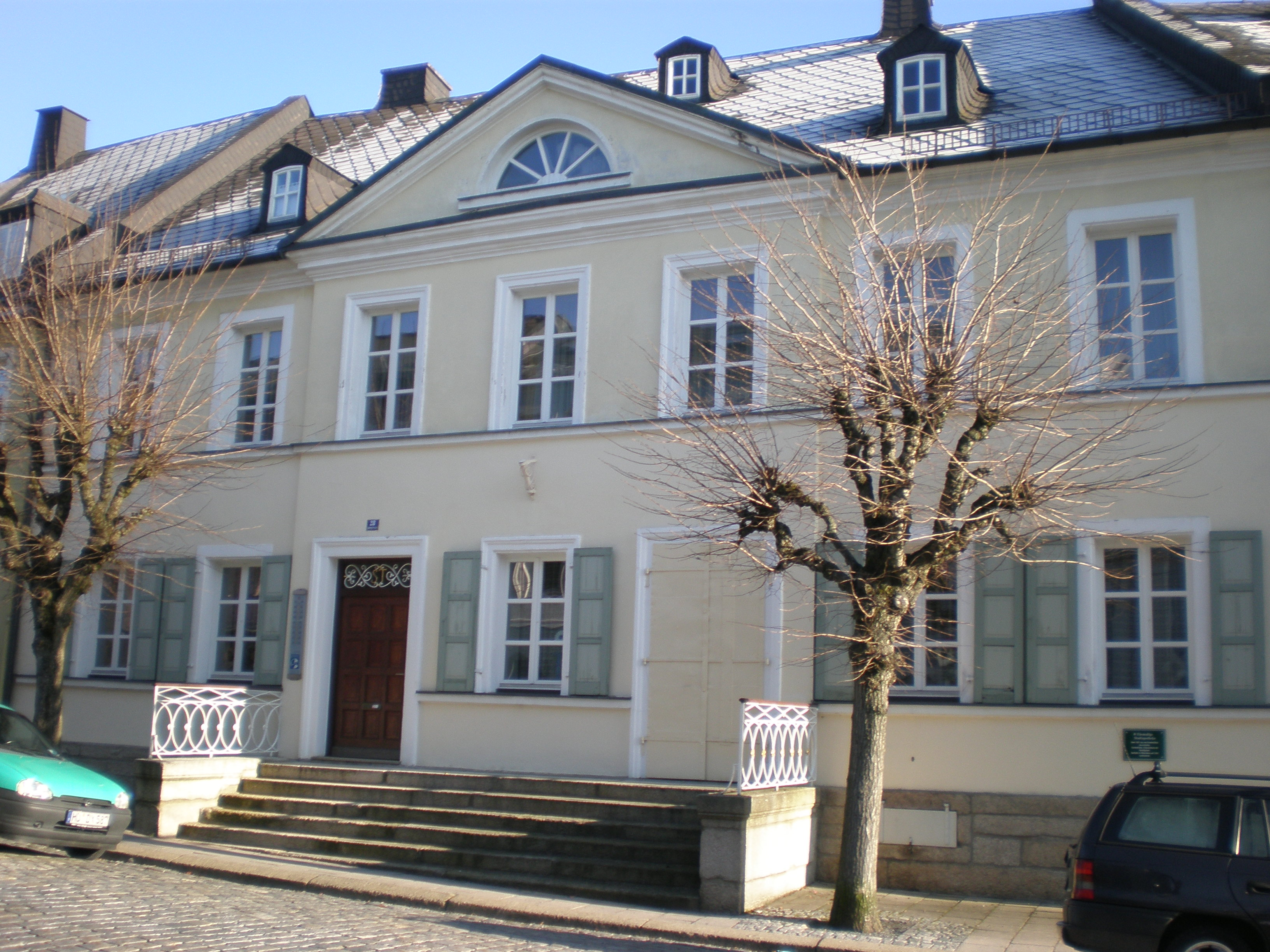 The former pharmacy in Münchberg.